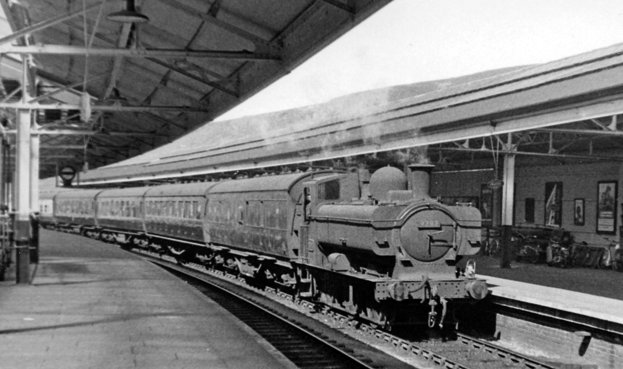 Swansea High Street Station, with a GW 0-6-0PT bringing in empty stock. View NE outward from the terminus: GW South Wales main line etc. The locomotive is '8750' class 0-6-0PT No. 9792 (built 5/36, withdrawn 3/64).